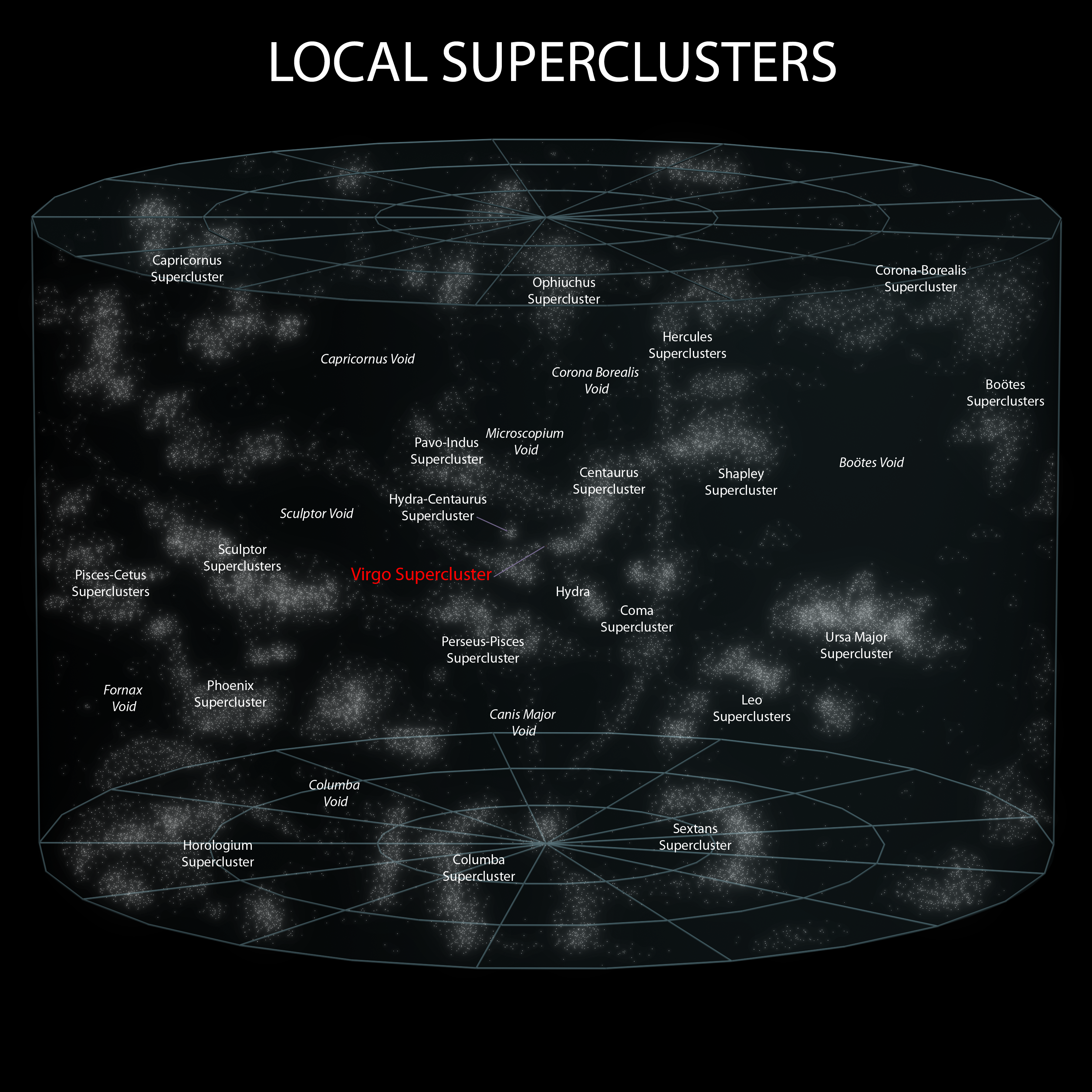 The full compilation of the image is located here: File:Earth's_Location_in_the_Universe_(JPEG).jpg NOTE: Please contact the author if requiring alterations or changes to the image for different language wiki's or for publication questions and concerns. I do ask that when redistributing my work, it be credited with the my name: Andrew Z. Colvin as I am the original author. I appreciate the cooperation and consideration of the Creative Commons Attribution-ShareAlike 3.0 Unported License and the GNU Free Documentation License agreements.